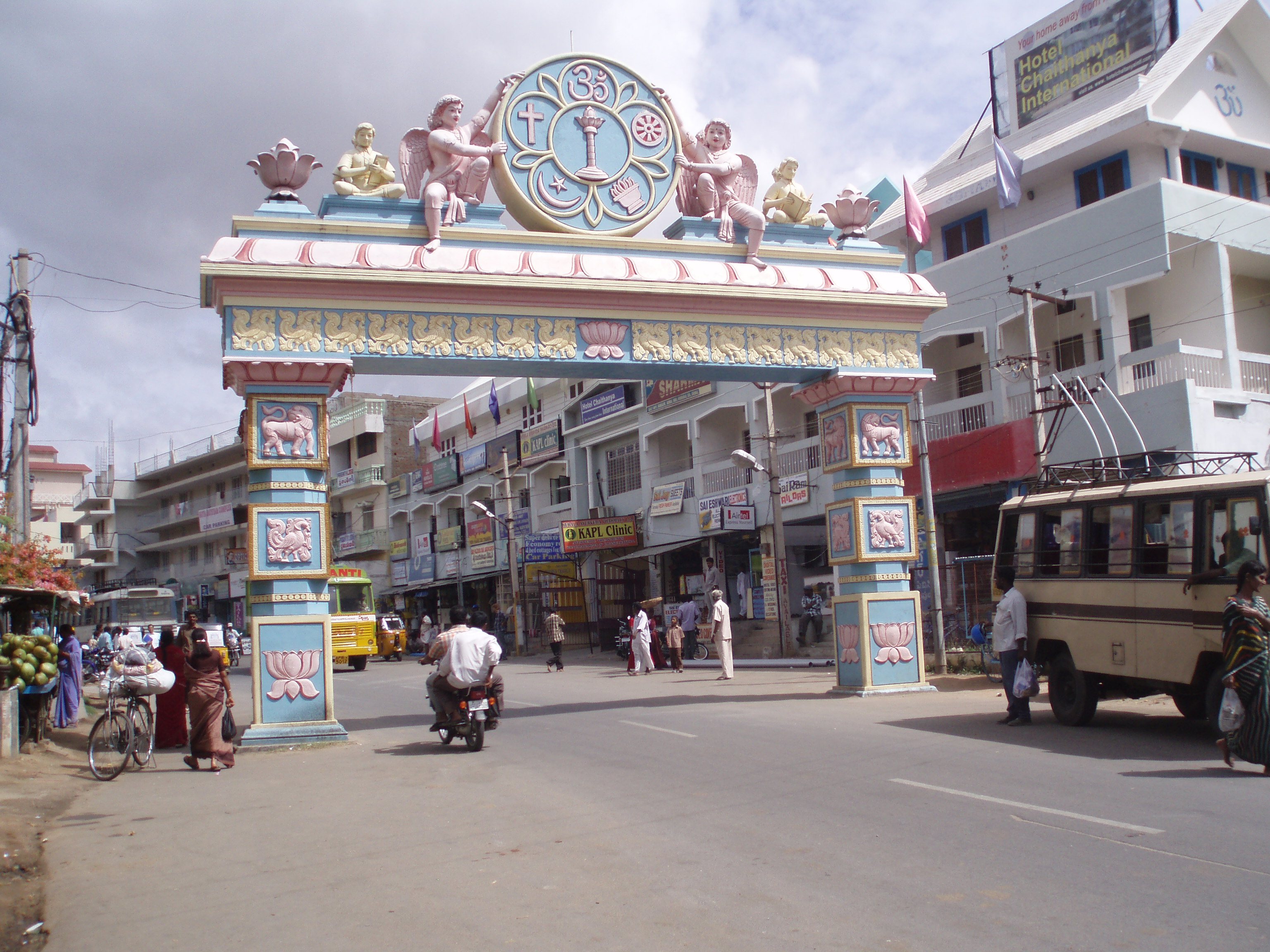 Entrance to Puttaparthi is the birth place and abode of Bhagwan Sri Sathya Sai Baba. Situated in the Anantapur district of Andhra Pradesh, Puttaparthi draws thousands of the Sai devotees from all over the world.